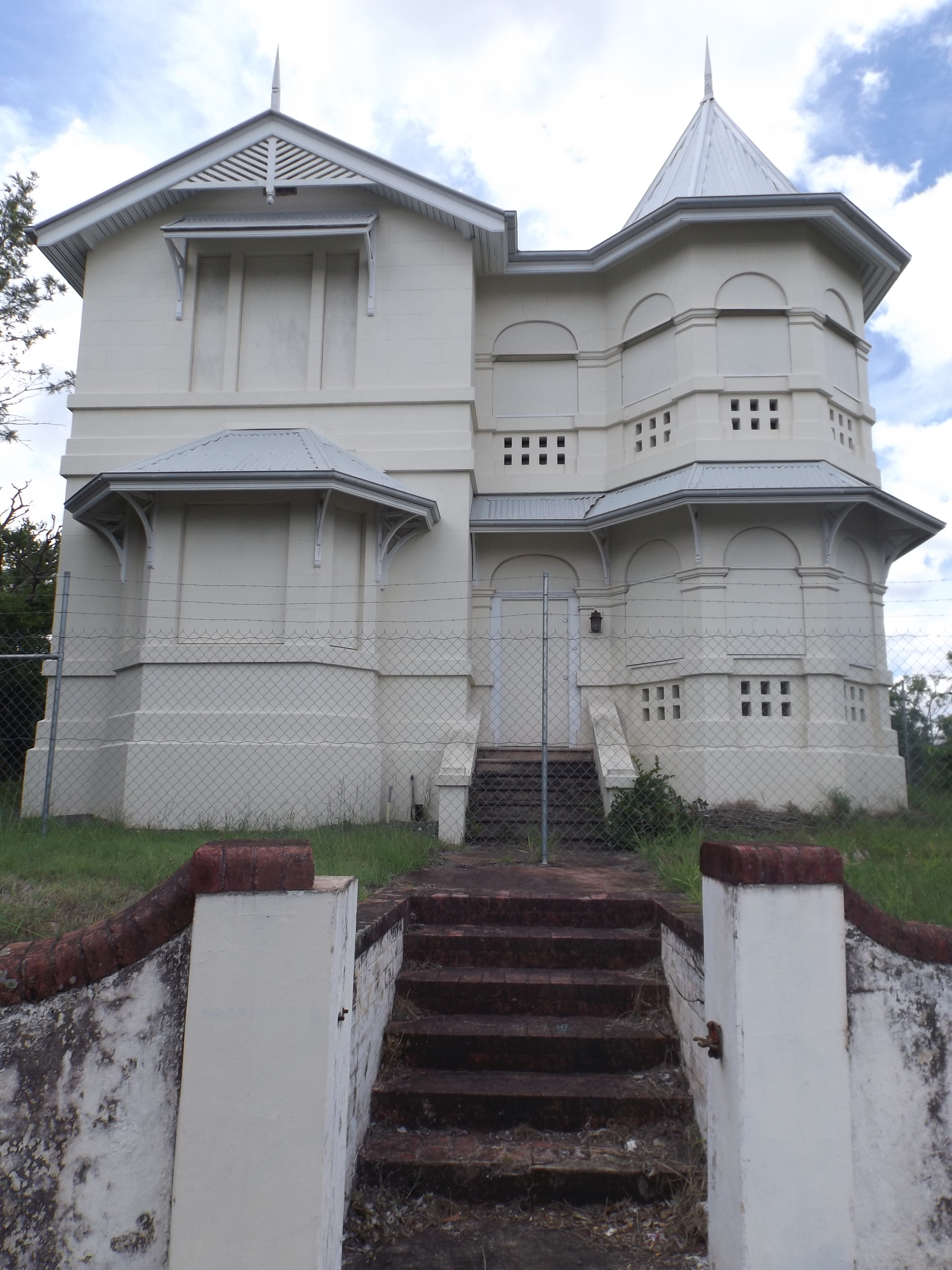 Photo of the stairs and Keating residence at Indooroopilly, Brisbane, Queensland, Australia.